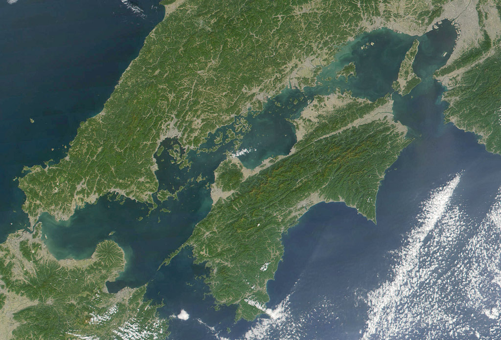 Formally named the Seto Inland Sea, the Inland Sea is the body of water separating Honshū, Shikoku, two of the main islands of Japan, and Kyūshū.